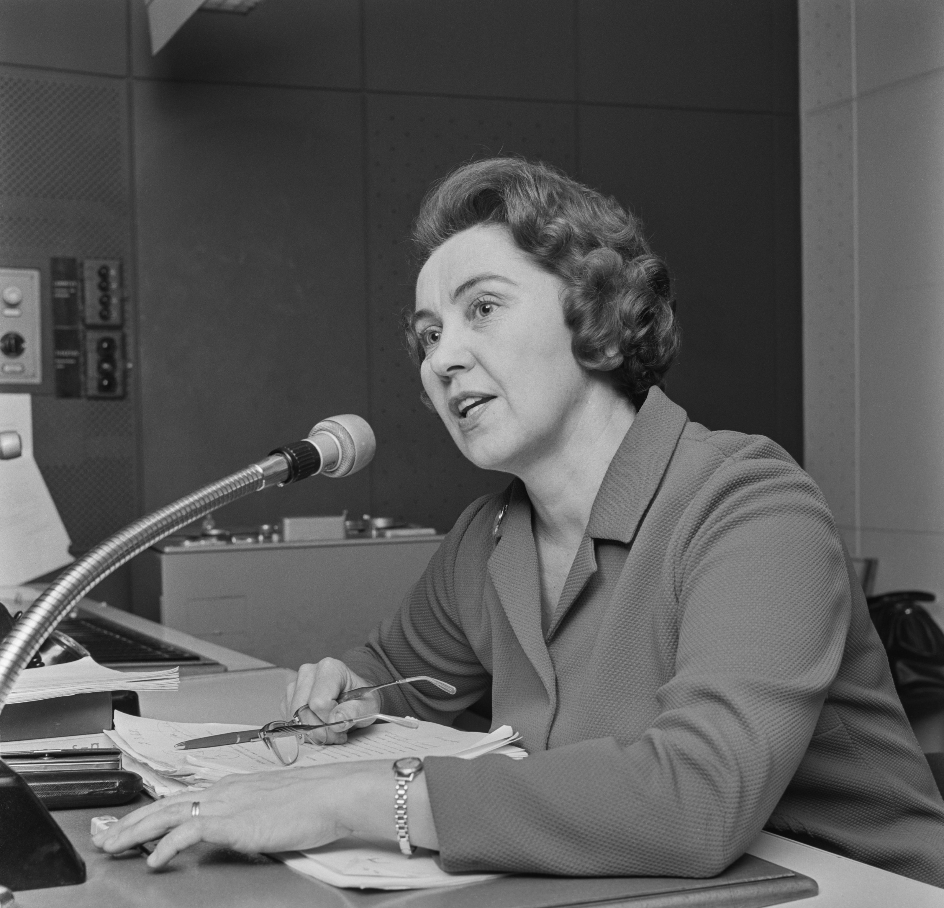 Photograph of the Finnish writer and radio journalist Toini Vuoristo (1919–2013) in a radio studio booth.